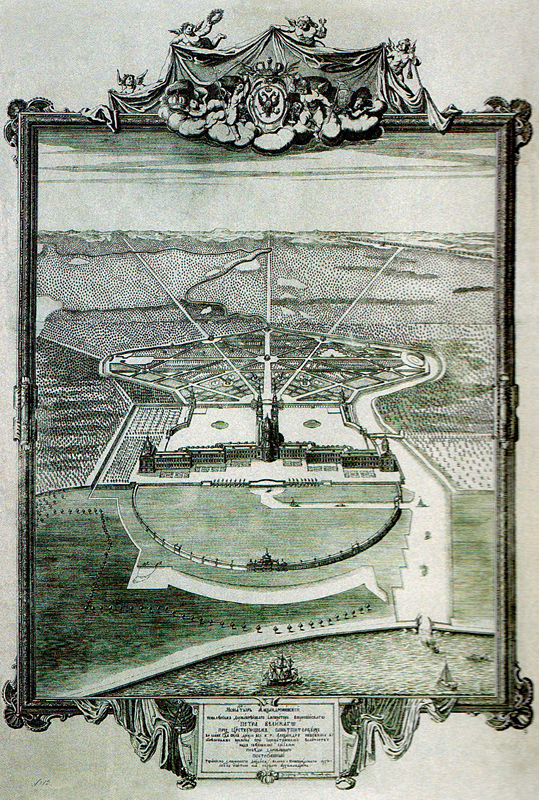 Design for the Alexander Nevsky Monastery